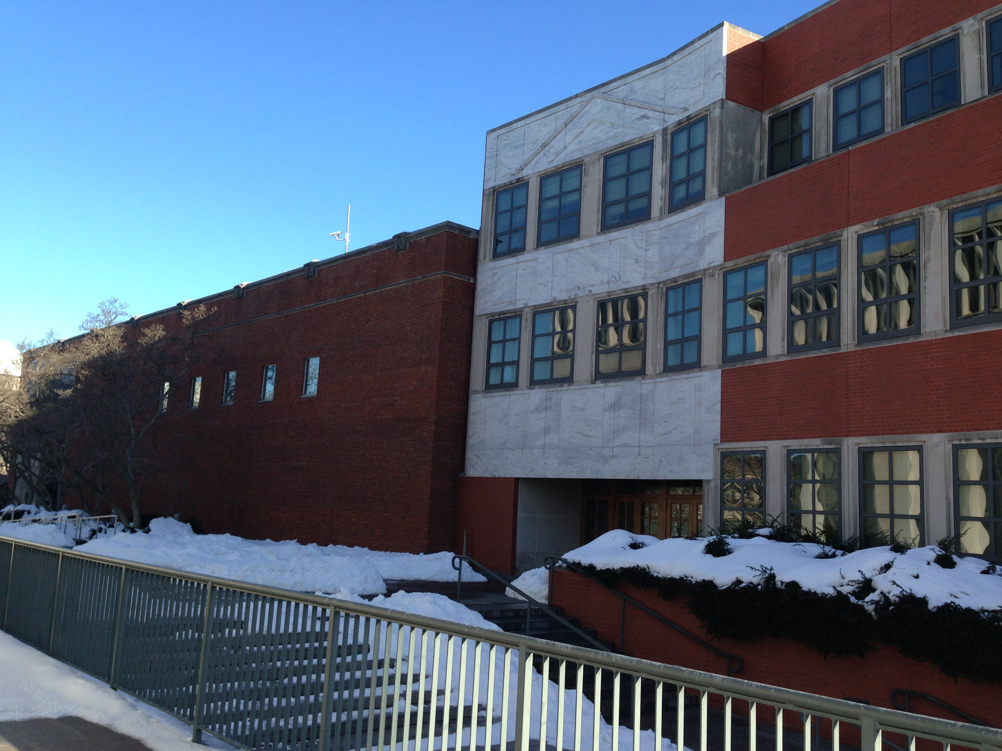 From left to right, Corwin Hall, Bendheim Hall, and (part of) Fisher Hall, at Princeton University in Princeton, New Jersey, as seen from the rear of Robertson Hall.